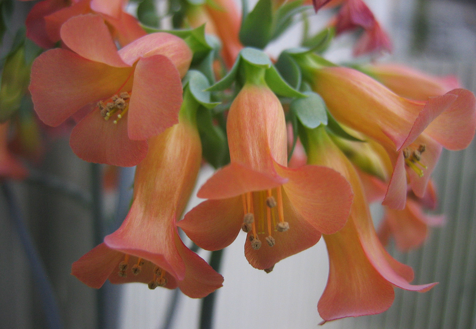 Blossoms of Kalanchoe delagoensis (synonym K. tubiflora); greenhouse in Hockenheim, Germany